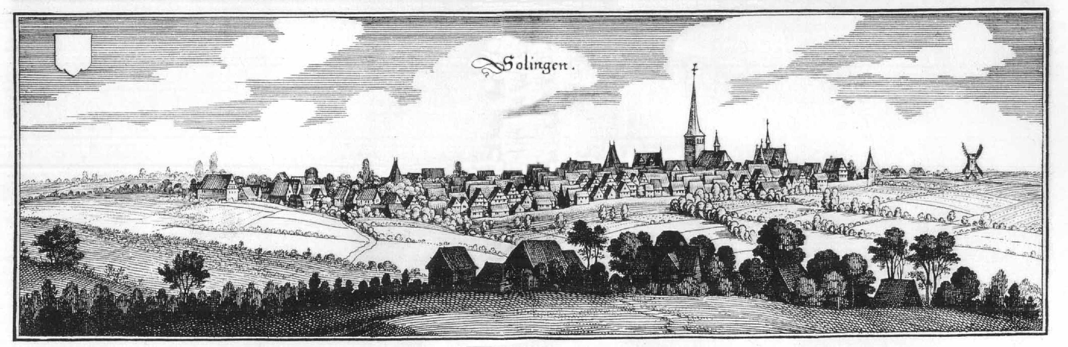 This is a scan of the historical document